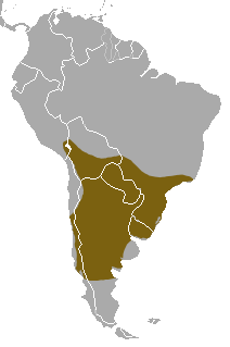 Lesser Grison (Galictis cuja) range